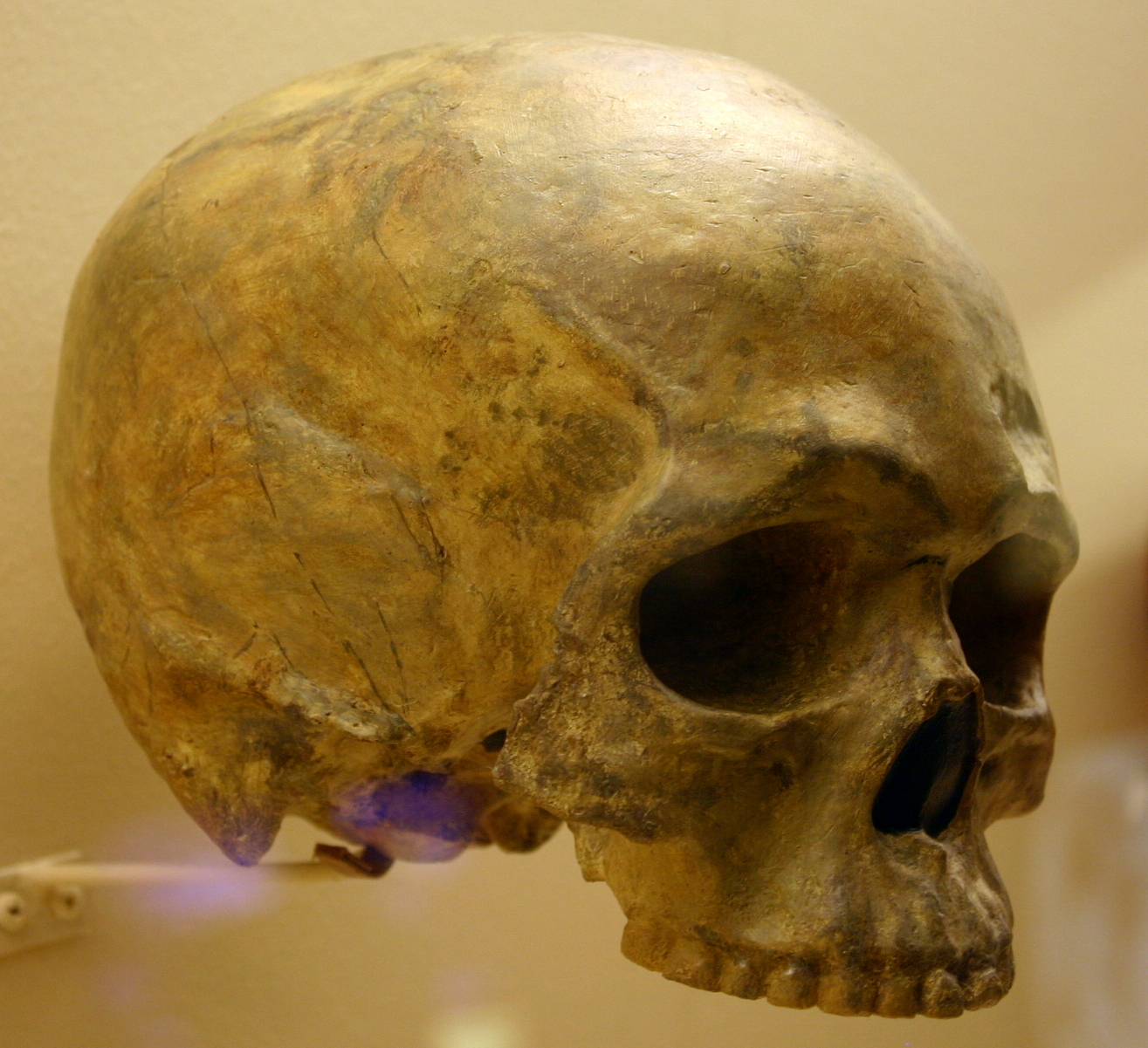 Taken at the David H. Koch Hall of Human Origins at the Smithsonian Natural History Museum.